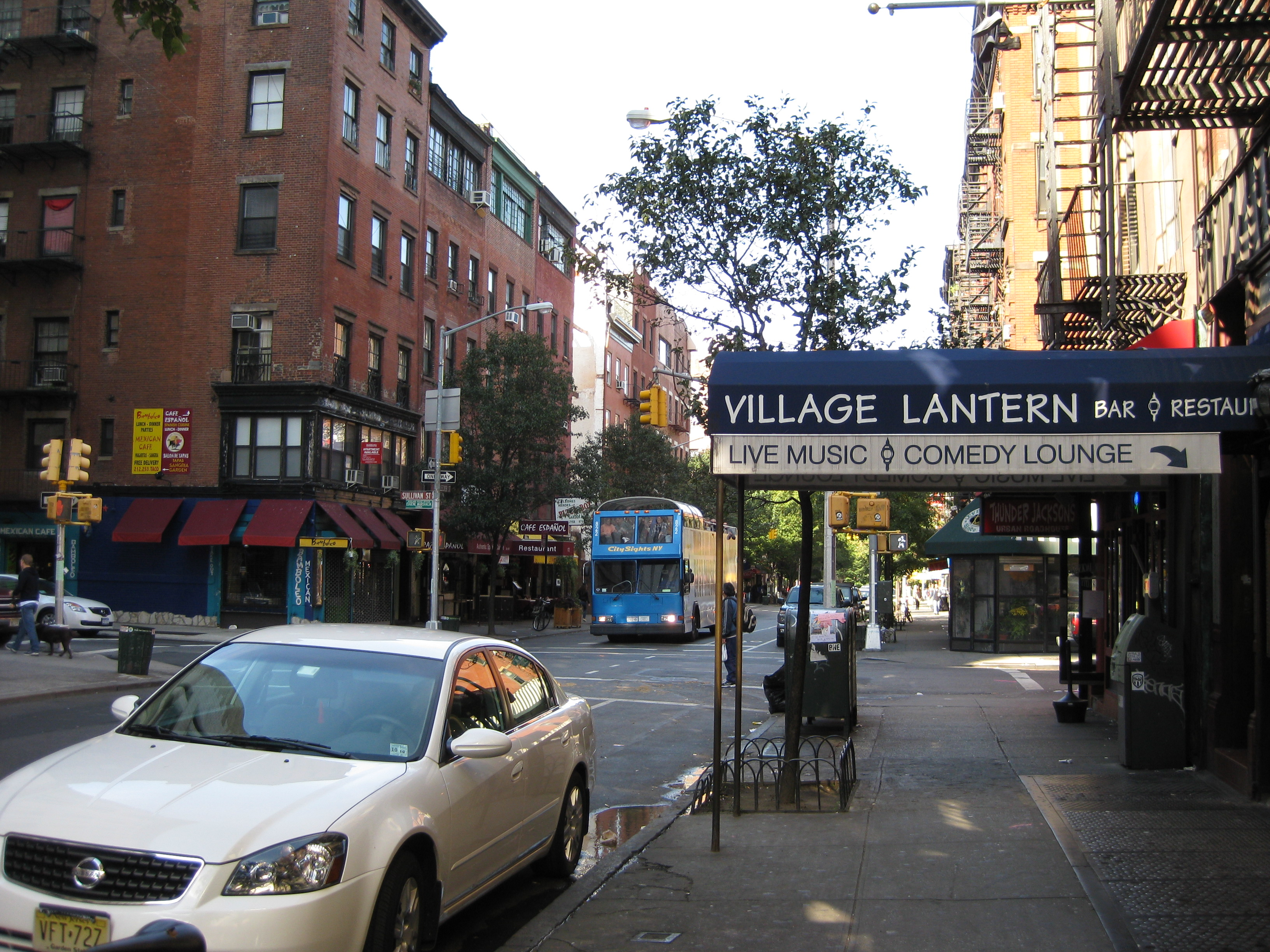 View along Bleecker Street in New York City, looking west towards the corner with Sullivan Street